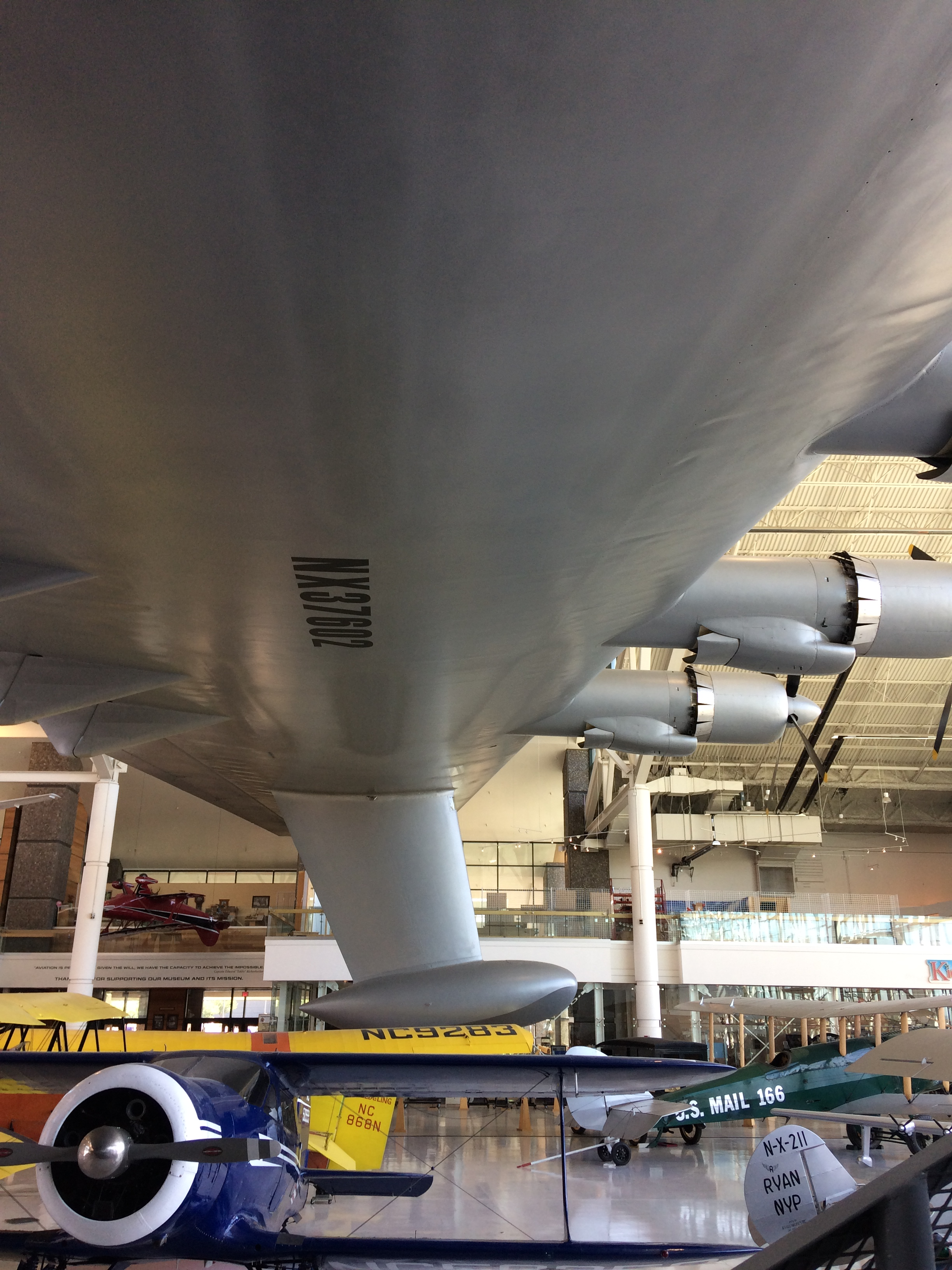 Underside of starboard wing of the Spruce Goose.